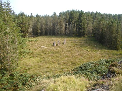 Dervaig Standing Stones Hidden in the forest, these stones carry you back 4000 years. It is a place alive with the past.